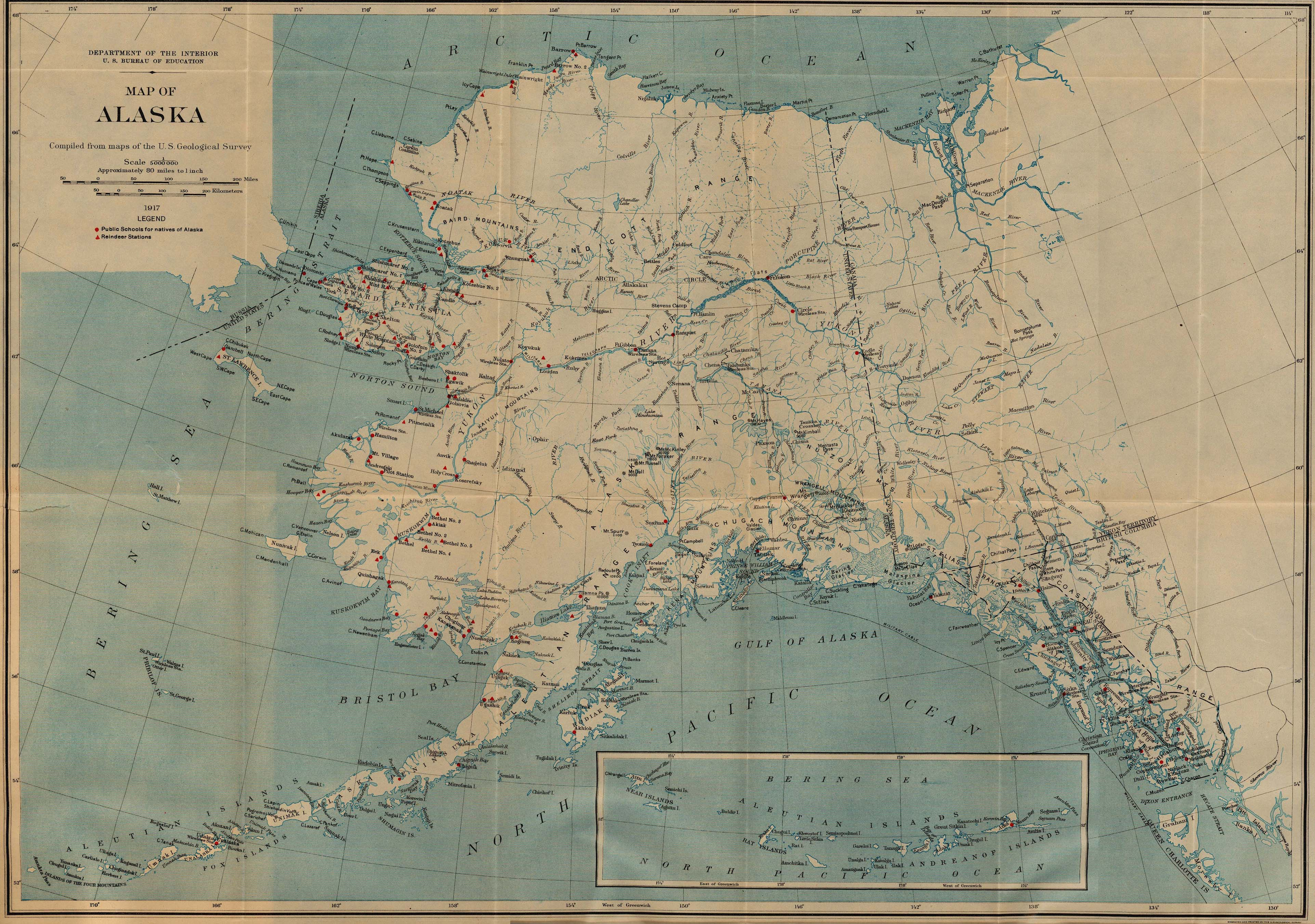 Map showing government schools for Alaska natives, and reindeer stations, as of 1917. Railroads, telegraph and cable lines, and wireless stations are also shown.